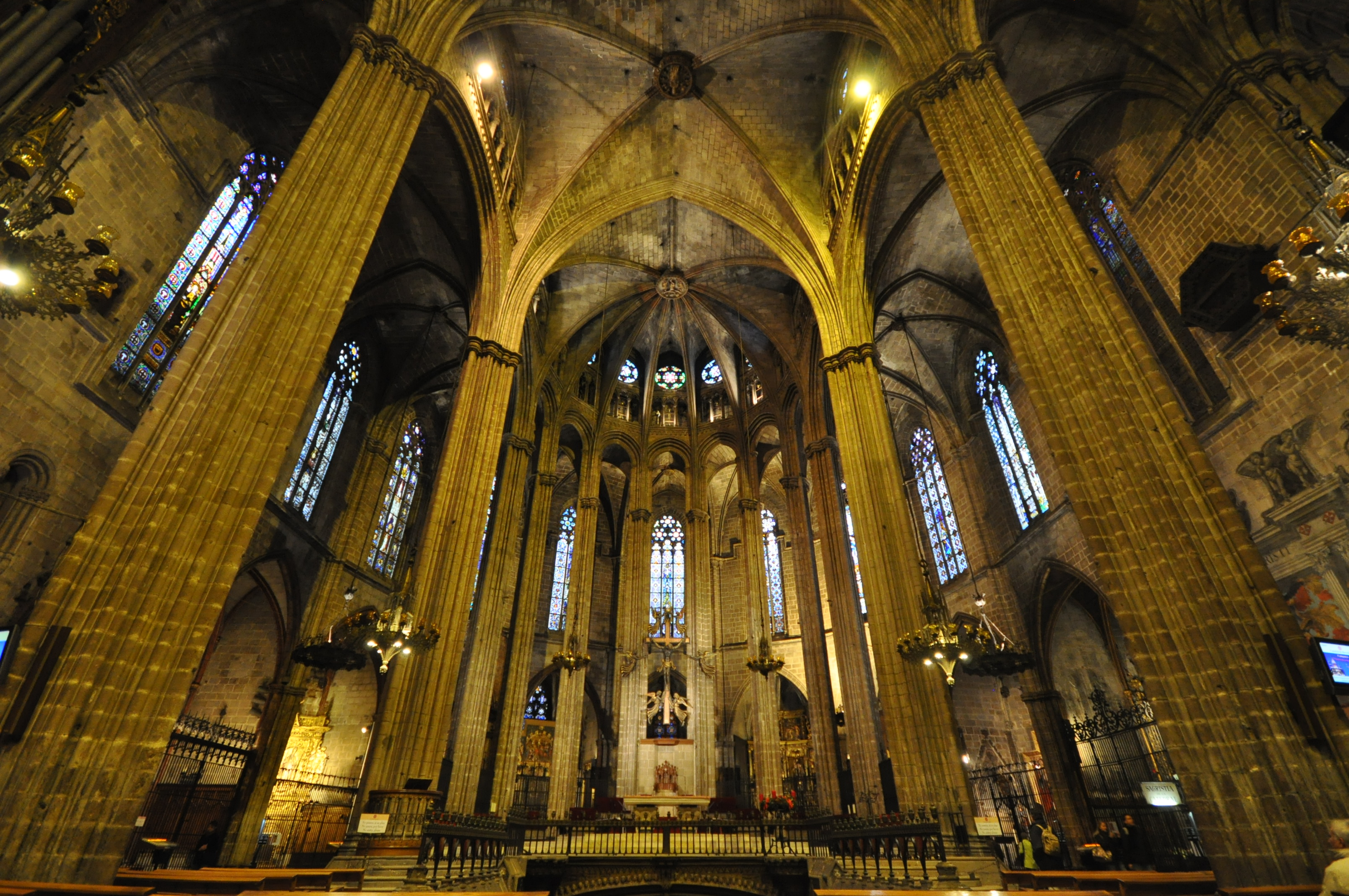 The Cathedral of Santa Eulalia (also called La Seu) is the Gothic cathedral seat of the Archbishop of Barcelona, Spain. The cathedral was constructed throughout the 13th to 15th centuries on top of a former Visigothic church. The neo-Gothic facade is from the 19th century. The cathedral is dedicated to Eulalia of Barcelona, co-patron saint of Barcelona, a young virgin who, according to Catholic tradition, suffered martyrdom during Roman times in Barcelona. One story is that she was exposed naked in the public square and a miraculous snowfall in mid-spring covered her nudity. The enraged Romans put her into a barrel with knives stuck into it and rolled it down a street (according to tradition, the one now called 'Baixada de Santa Eulalia'). The body of Saint Eulalia is entombed in the cathedral's crypt. One side chapel is dedicated to "Christ of Lepanto", and contains a cross from a ship that fought at the Battle of Lepanto (1571). The body of the cross is shifted to the right. Catalan legend says that the body swerved to avoid being hit by a cannonball. This is believed to have been a sign from God that the Ottomans would be defeated. The cathedral has a secluded Gothic cloister where thirteen white geese are kept (it is said that Eulalia was 13 when she was murdered). The cathedral was built throughout the 14th and 15th centuries.